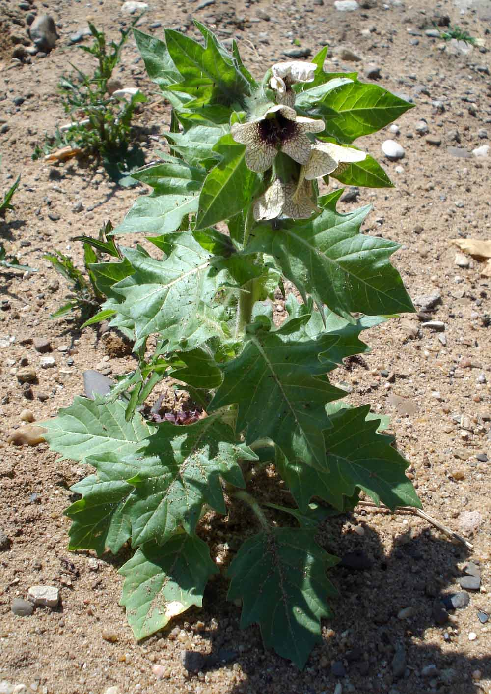 Hyoscyamus niger (Unterfranken, Germany)